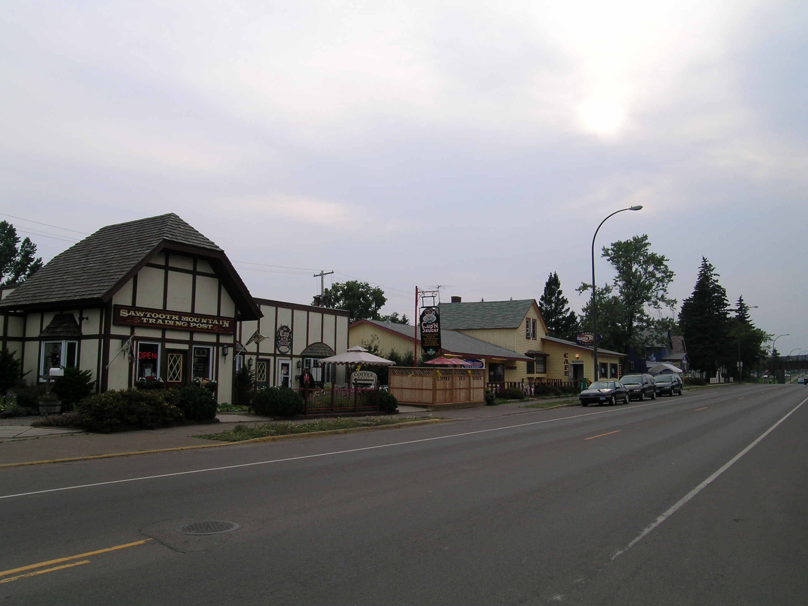 Storefronts in Two Harbors, Minnesota. Address is 802 7th Ave. As of December 2013, the building on the left is now the Northshore Pizza & Coffee House. The Vanilla Bean Cafe is still there.